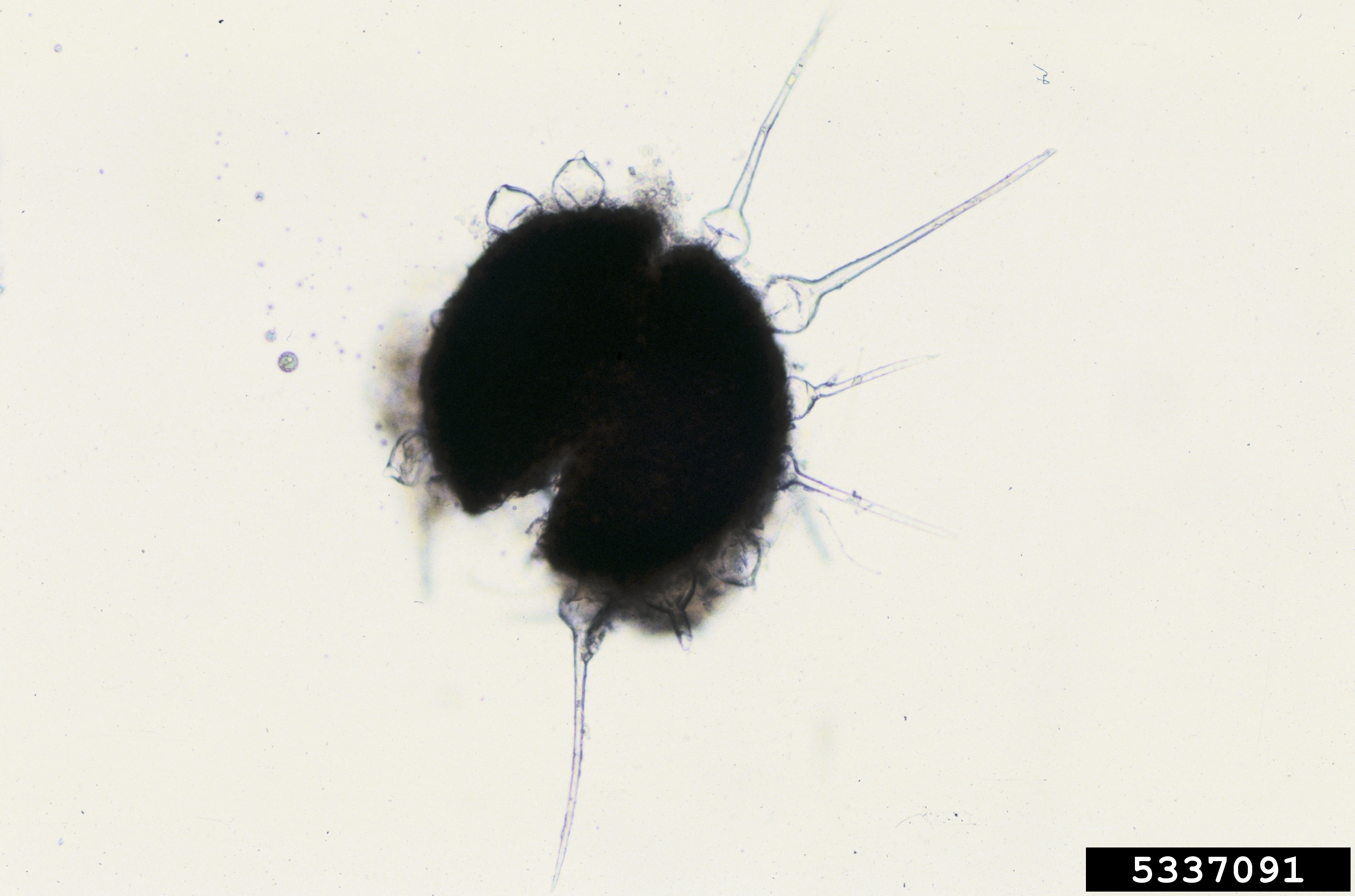 The powdery mildew species Phyllactinia guttata (Wallr.) Lév. Microscopic view of cleistothecium with appendages with bulbous base.